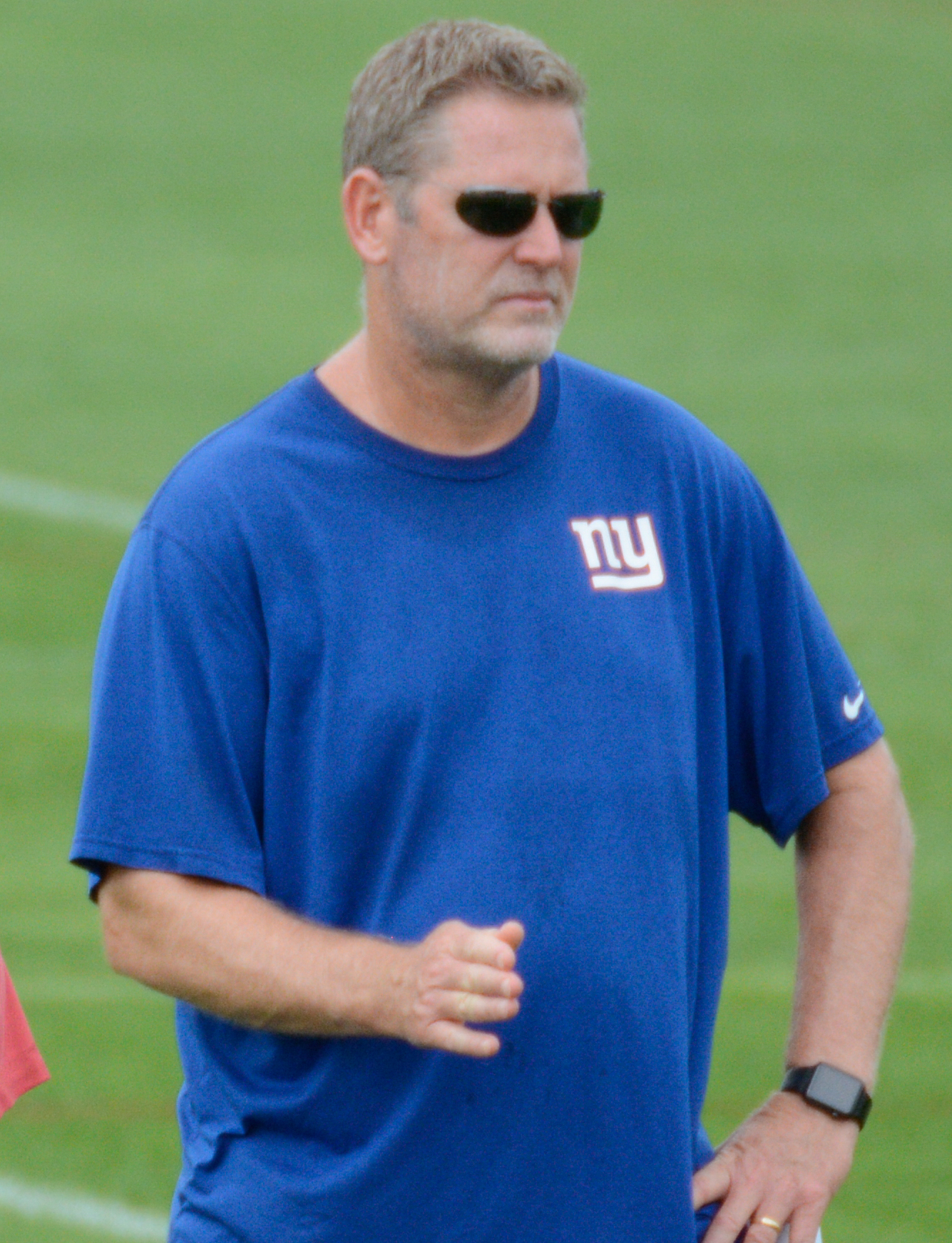 New York Giants training camp